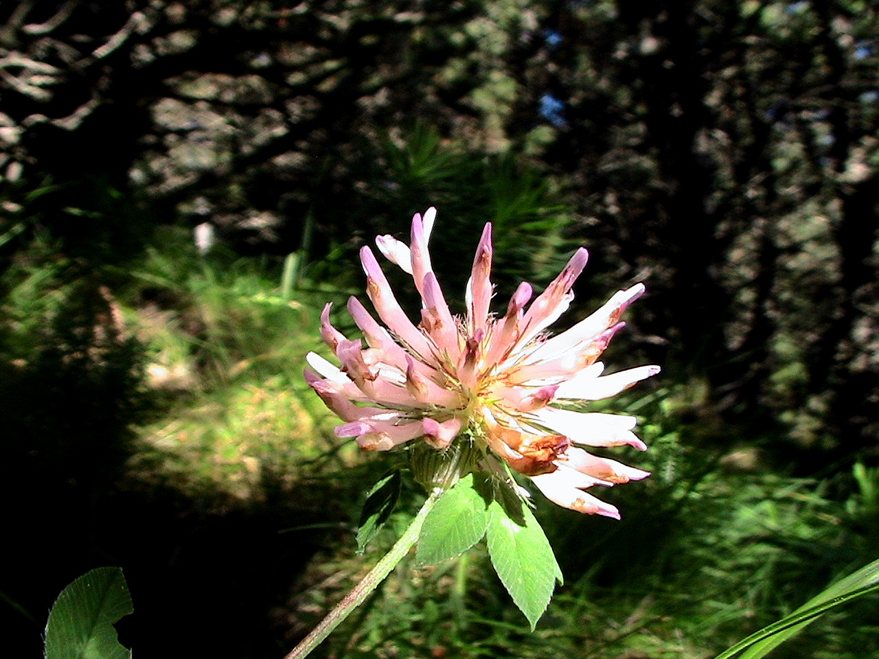 Trifolium fragiferum. In la Bòfia, la Coma i la Pedra (Solsonès - Catalunya). To 1.830 m. altitude